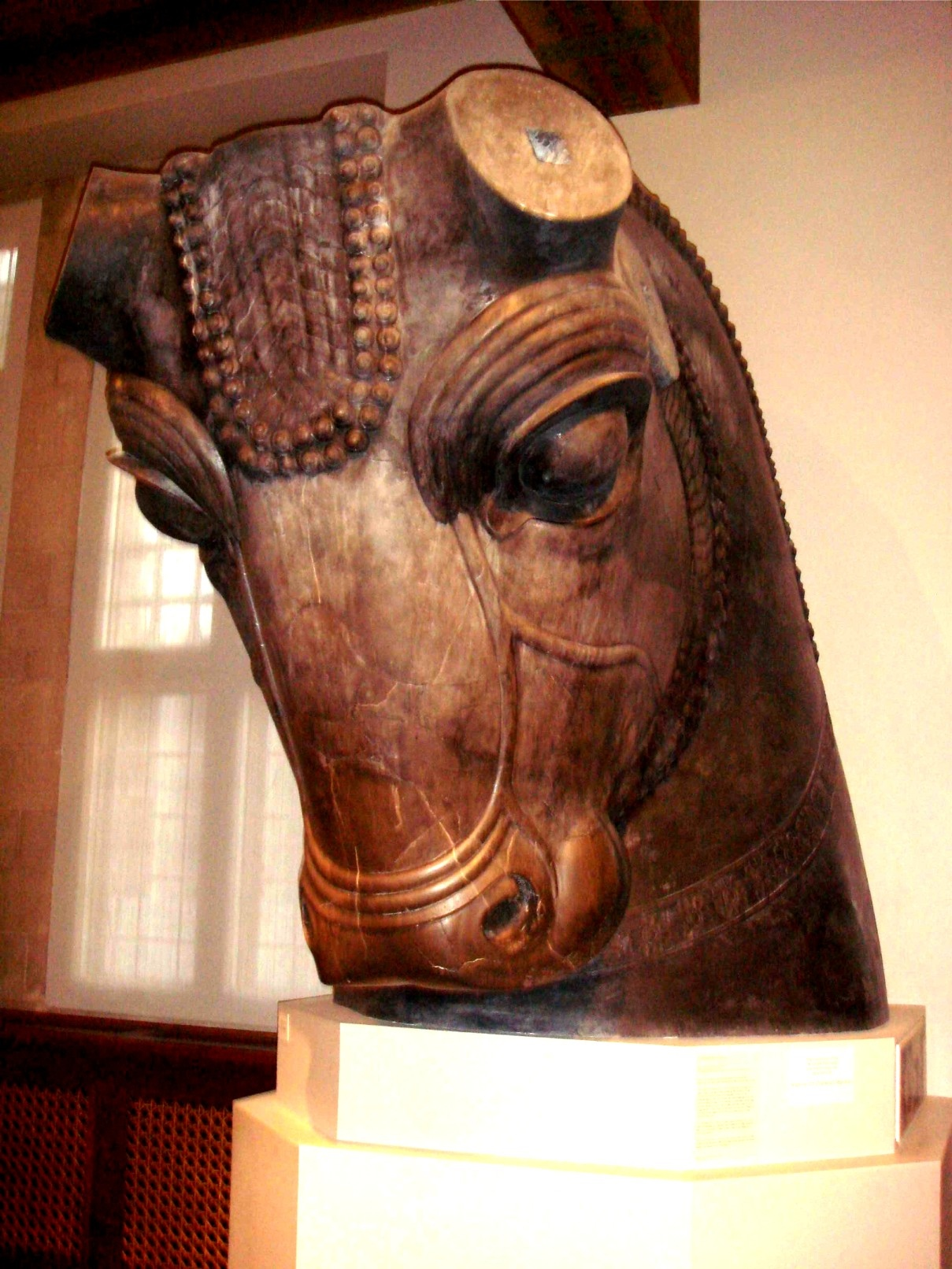 Author: Nathaniel Loman I took this picture and I release it to the public domain Head of a bull that once guarded the entrance to the Hundred-Column Hall in Persepolis. On display at the oriental institute Chicago